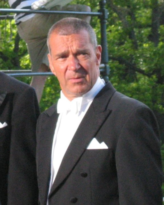 Swedish actor Kjell Bergqvist